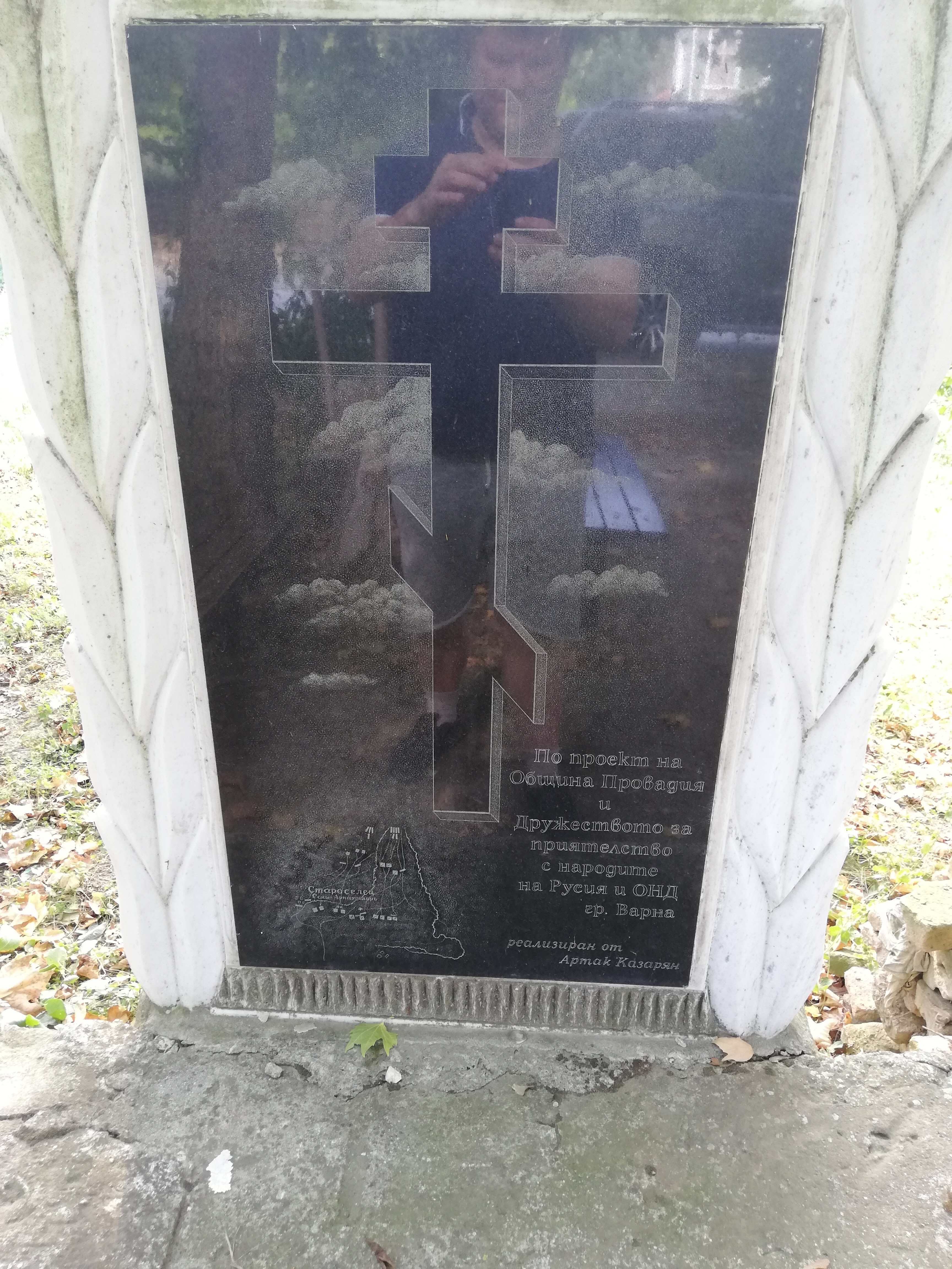 A memorial to the battle of Eski Arnautlar, that occurred during Russo-Turkish War (1828–29)